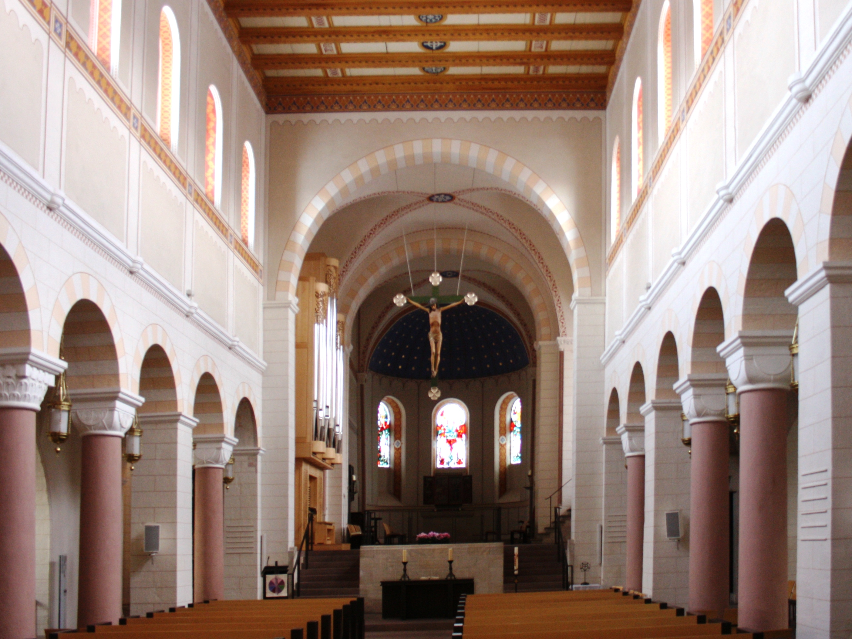 Abbeychurch in Gandersheim, Germany. Nave towards east.